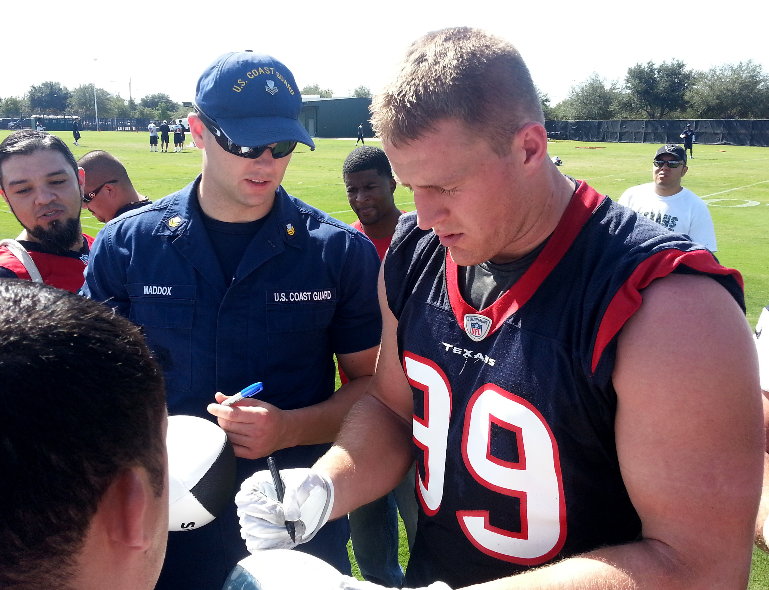 J.J. Watt signing an autograph, 1 november 2012